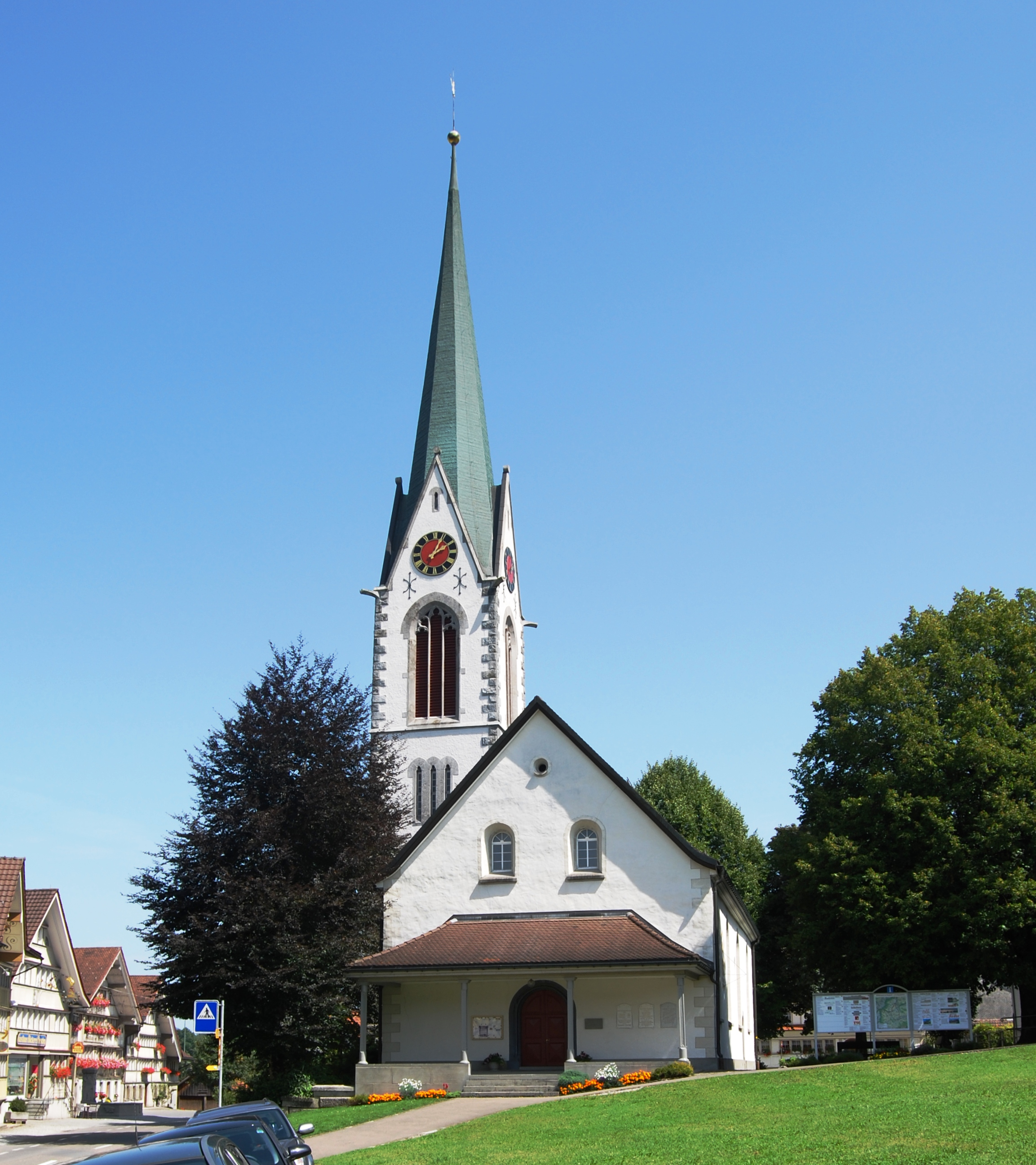 Church of Hundwil, canton of Appenzell Ausserrhoden, SwitzerlandEsperanto: Preĝejo de Hundwil, Kantono Apencelo Ekstera, Svislando